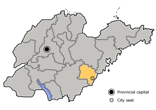 The prefecture-level city of Rizhao is highlighted on this map of Shandong province, People's Republic of China.